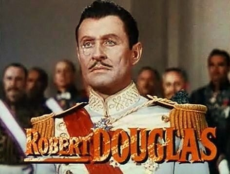 British actor & director Robert Douglas (1909-1999) in The Prisoner of Zenda - trailer (cropped screenshot)